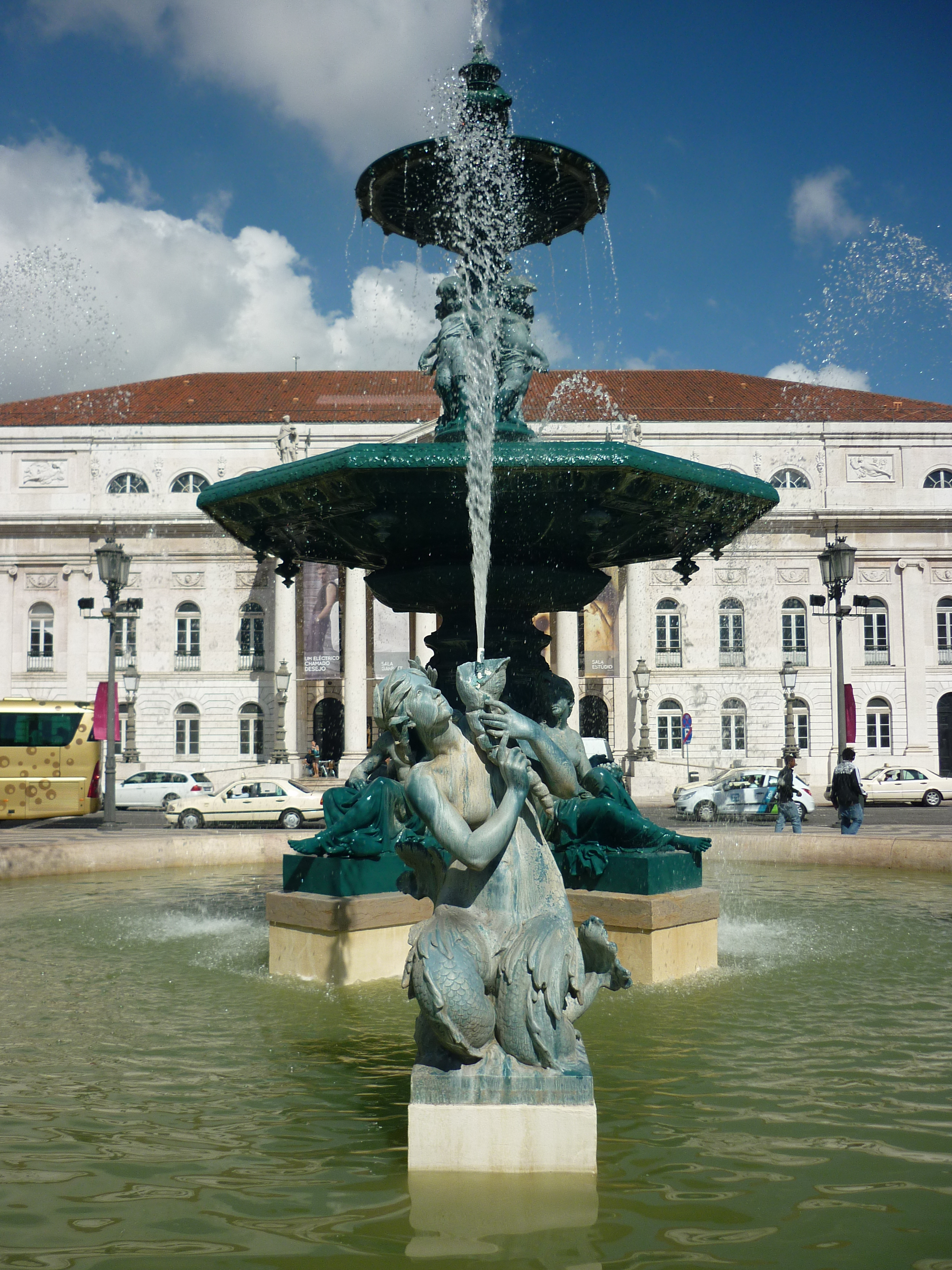 Fountain in Don Pedro IV square, Lisbon, Portugal